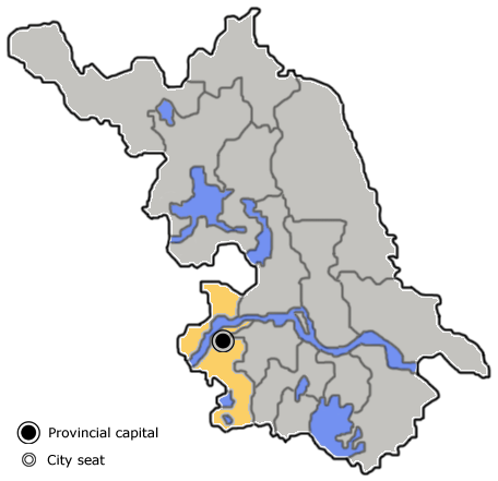 The prefecture-level city of Nanjing is highlighted on this map of Jiangsu province, People's Republic of China.Bân-lâm-gú: Lâm-kiann-tshī tsāi Kang-soo-síng ê tē-lí uī-tì. 南京市在江蘇省的地理位置.